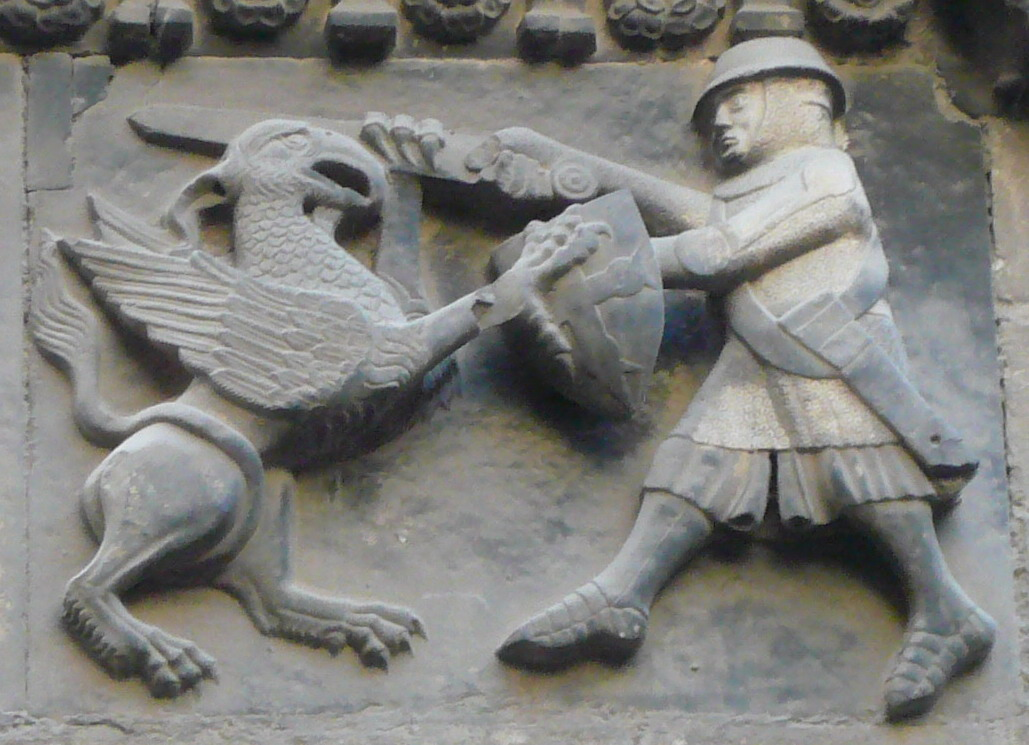 Sant Iu door, cathedral of Barcelona